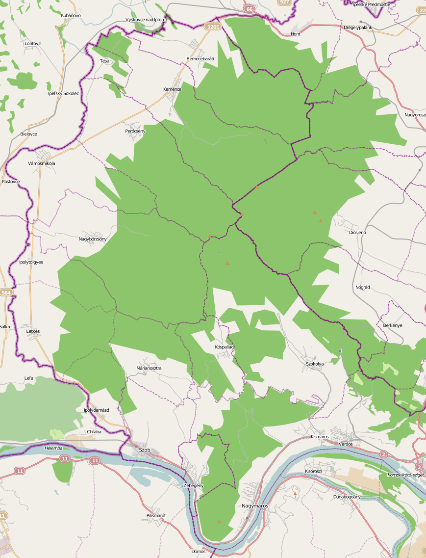 Map of Börzsöny